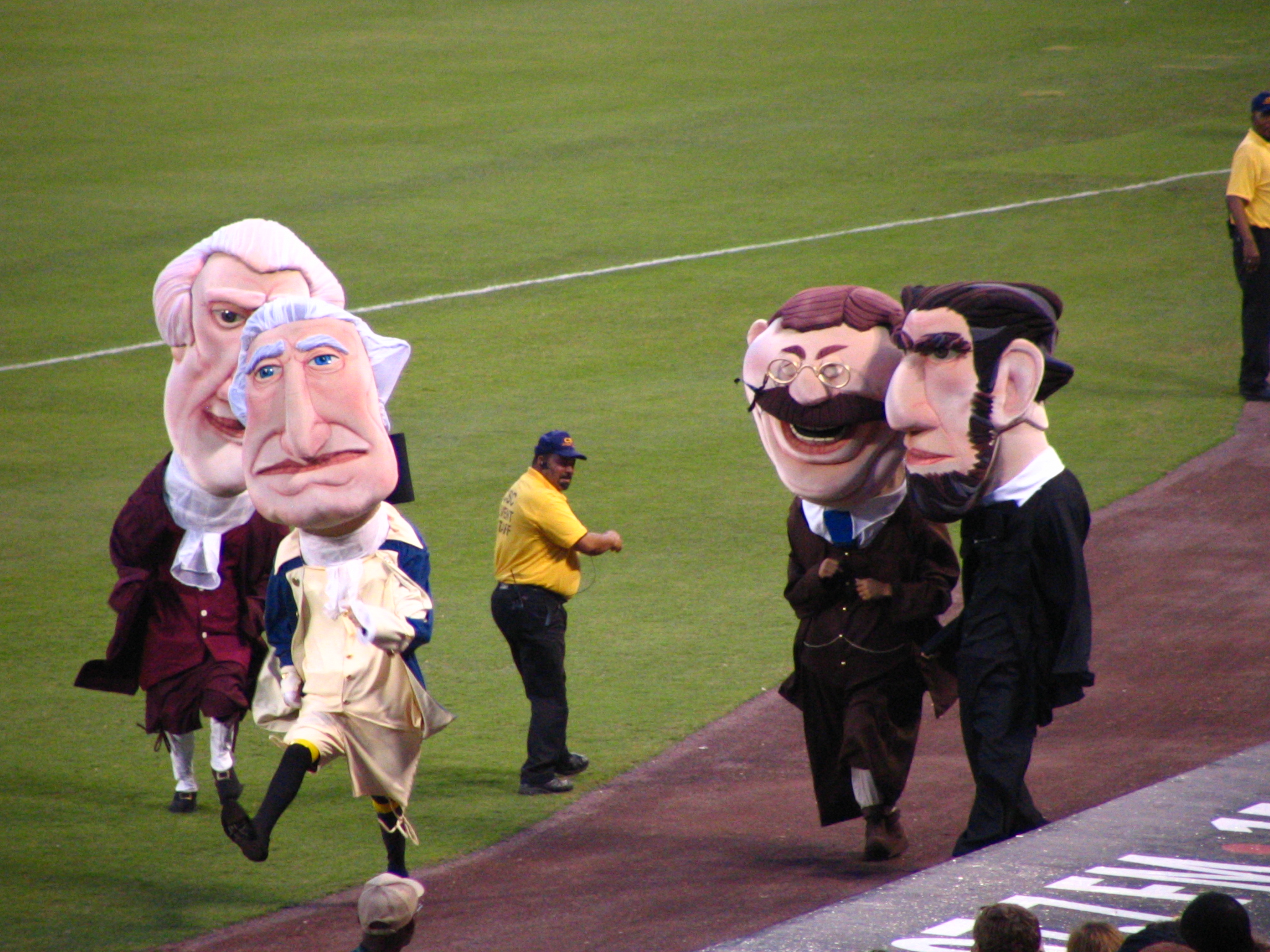 Washington Nationals Presidents Race: Before this past weekend, it was a video-screen-only affair - now we have the racing presidents live and in the "flesh."